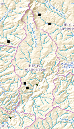 HUC 031300010206 - Yellowbank Creek-Lower Soque River. Map shows Yellowbank Creek flowing from north to south, joining the Soque River, which bisects the sub-watershed from east to southwest.